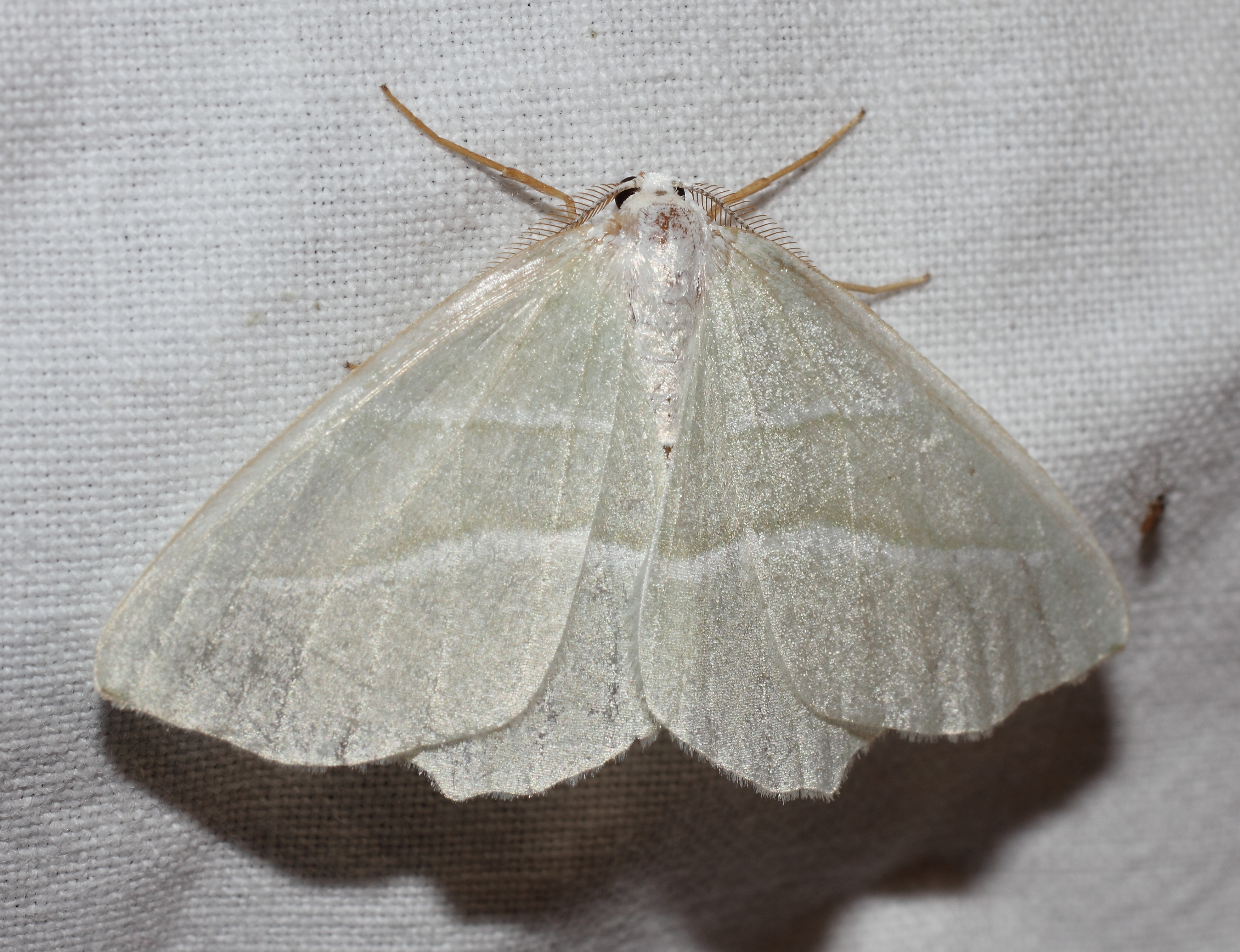 Campaea margaritaria found in Styria, Austria